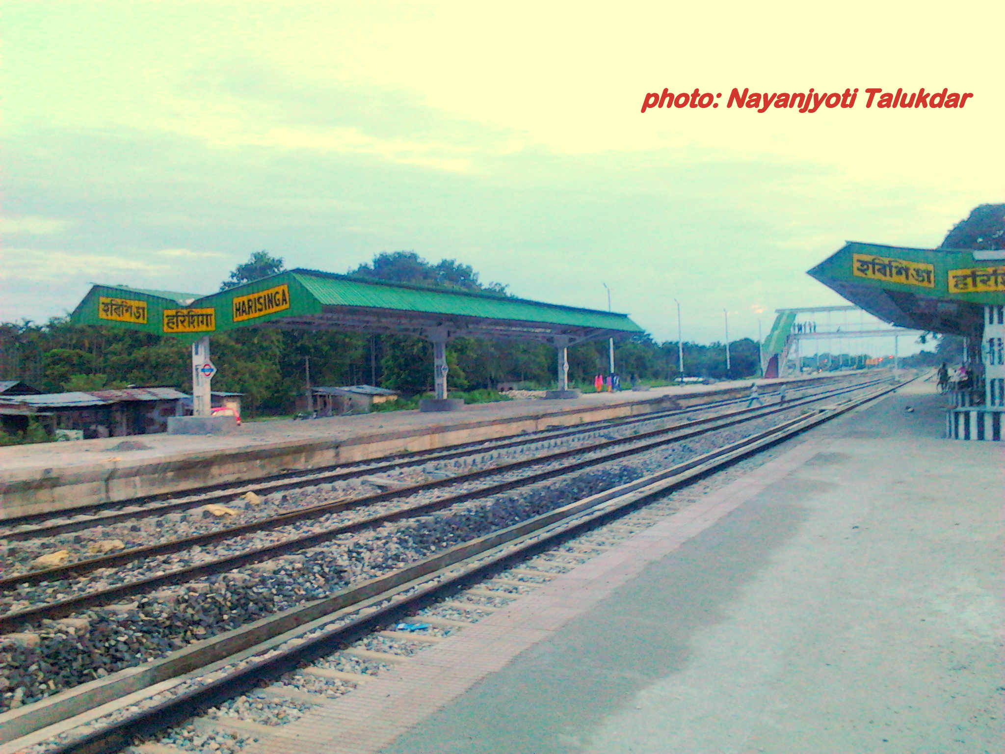 Renovated Harisinga Railway Station